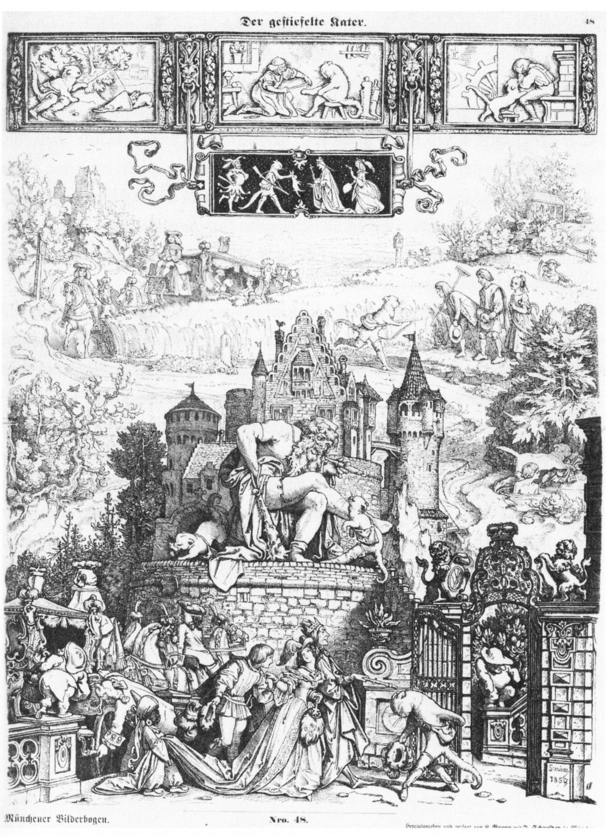 Fairy tale illustration